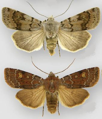 Euxoa chimoensis female (top) male (bottom)